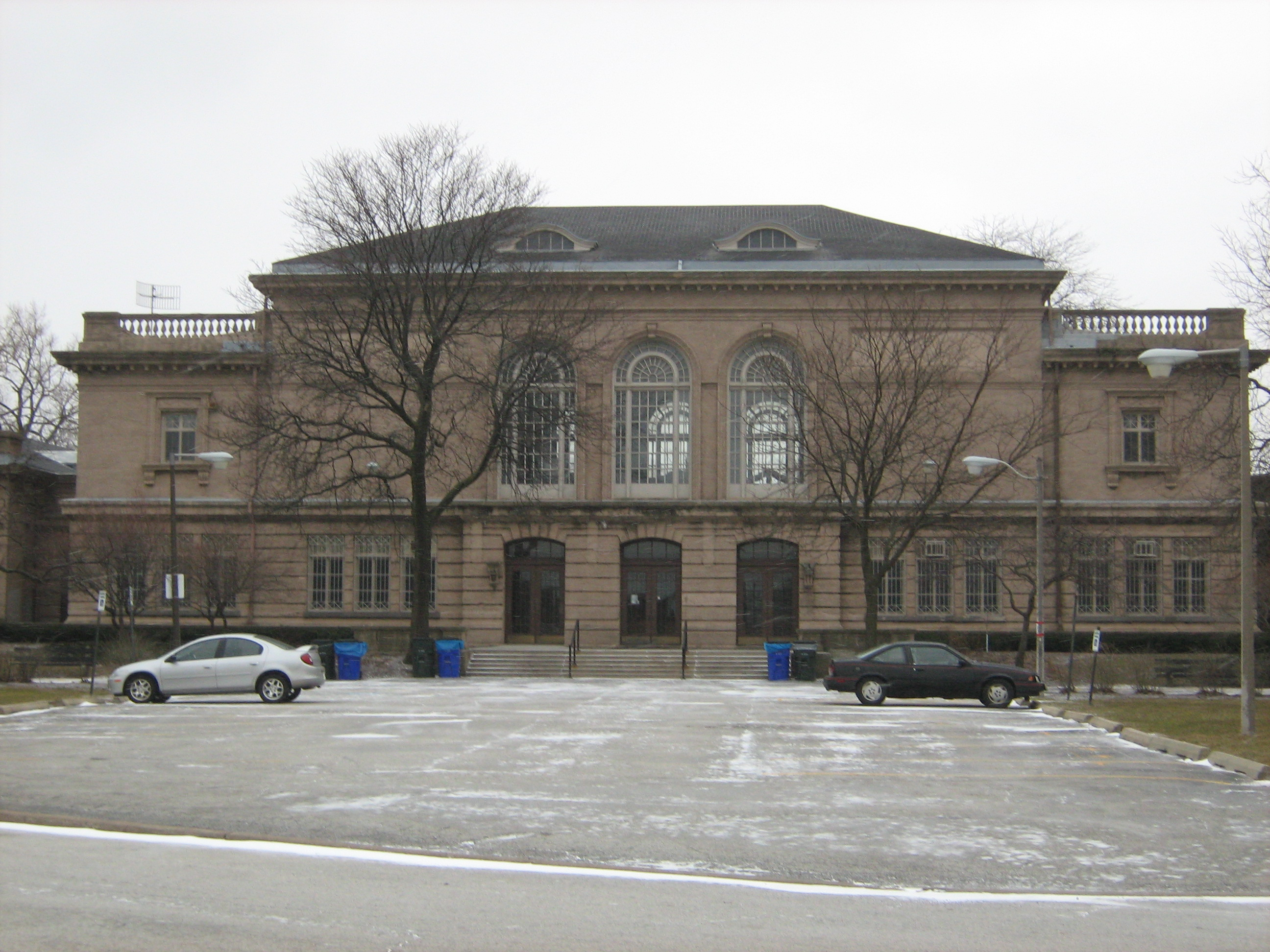 9801 S. Avenue G Chicago, IL 60617 312-747-6039